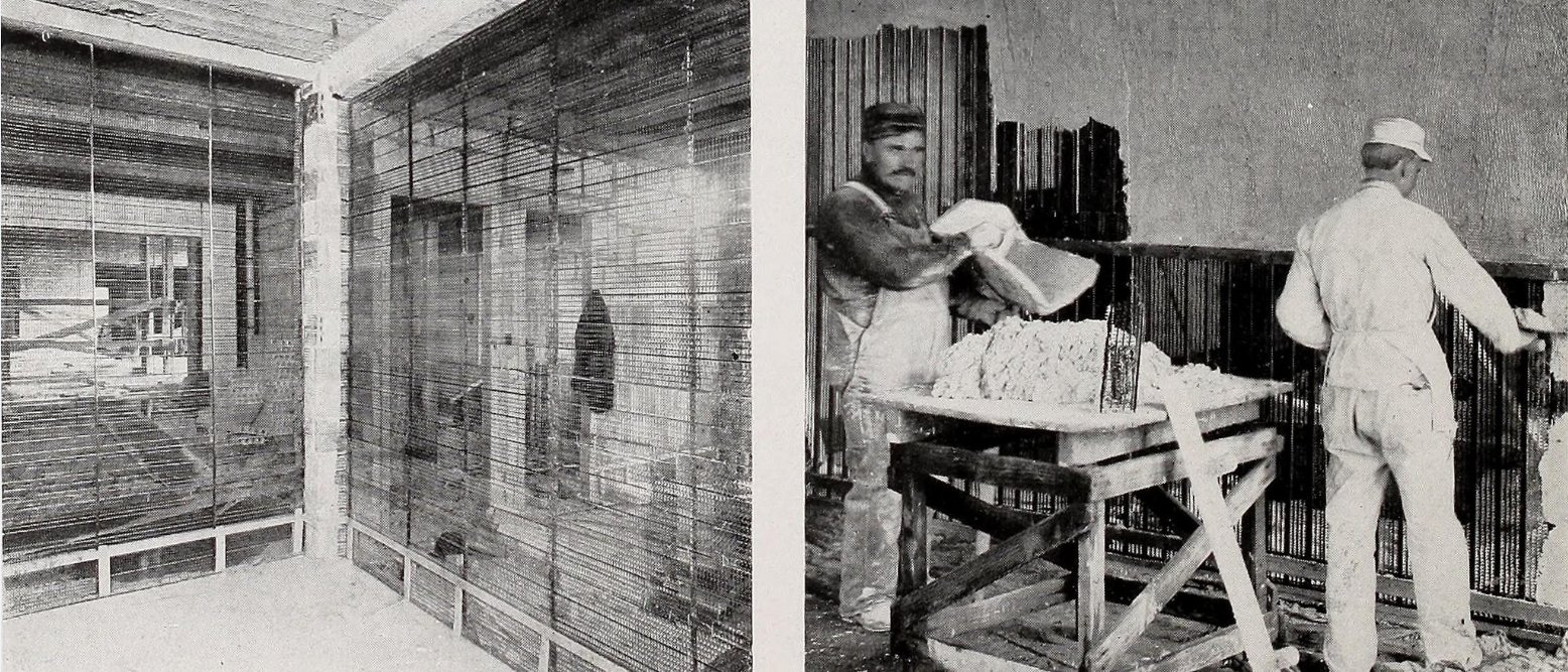 Image from page 41 of "Hy-rib and metal lath for concrete, stucco and plaster in roofs, floors, walls, sidings, partitions, ceilings, furring, arches, conduits and tanks .." (1919)